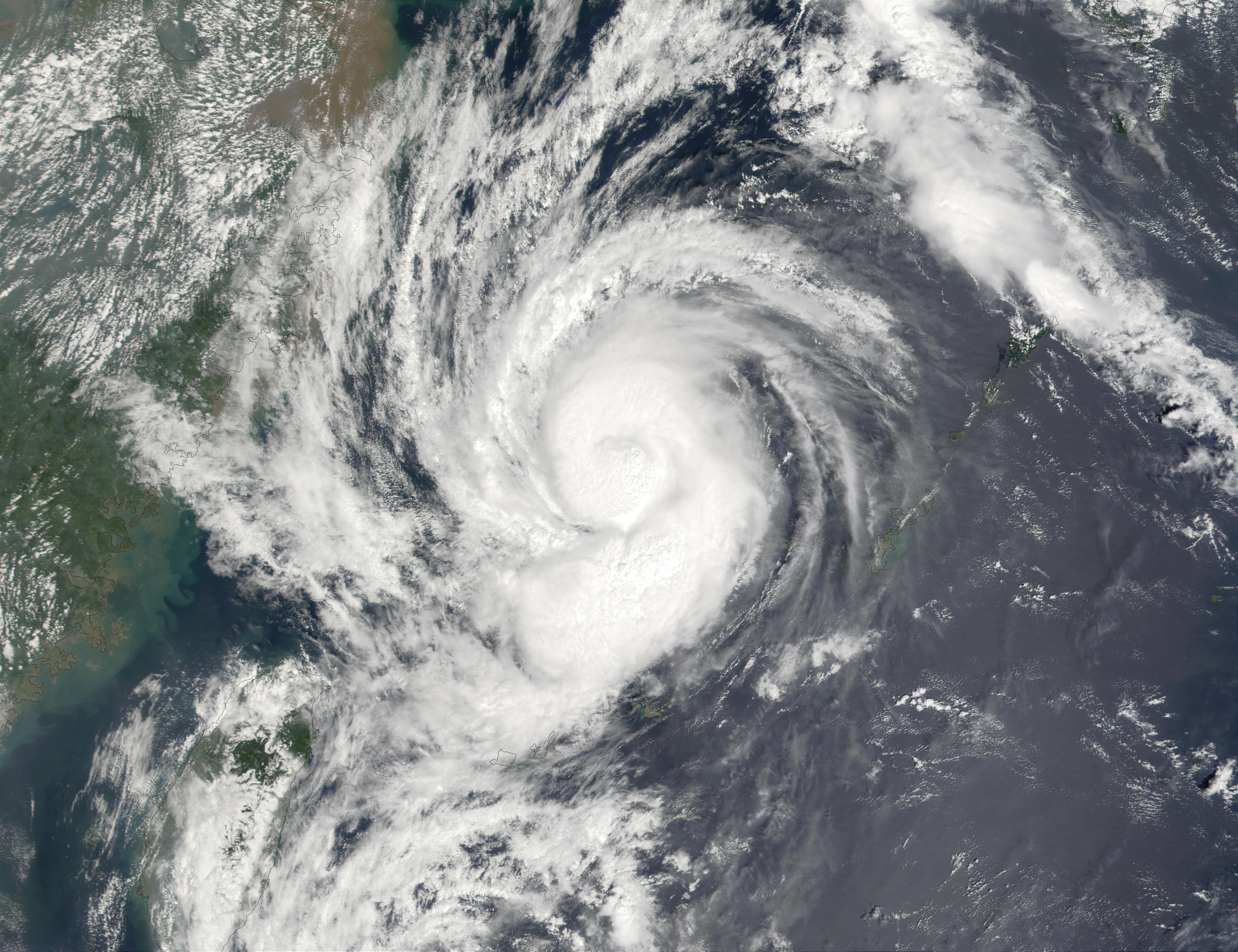 Typhoon Nari seems to have overtaken the entire East China Sea in this true-color MODIS image from September 9, 2001. Nari is situated between China on the left; Taiwan, at bottom left; and the Ryukyu Islands, whose outlines arc around the right of the image. The center most island is Okinawa. Nari has been forecasted to drift southeastward for a time, and then reverse course to move westward. The tracks of cyclones and hurricanes are influenced strongly by the prevailing winds in a region. At higher latitudes the winds tend to be from the west, pushing storms eastward. At lower latitudes, prevailing winds typically come from the east, pushing storms westward. Nari's location in the East China Sea puts it in a zone of transition with respect to prevailing winds, which means that it may be steered alternatively by winds from either direction. A similar phenomenon often happens to storms and hurricanes that enter the Gulf of Mexico.